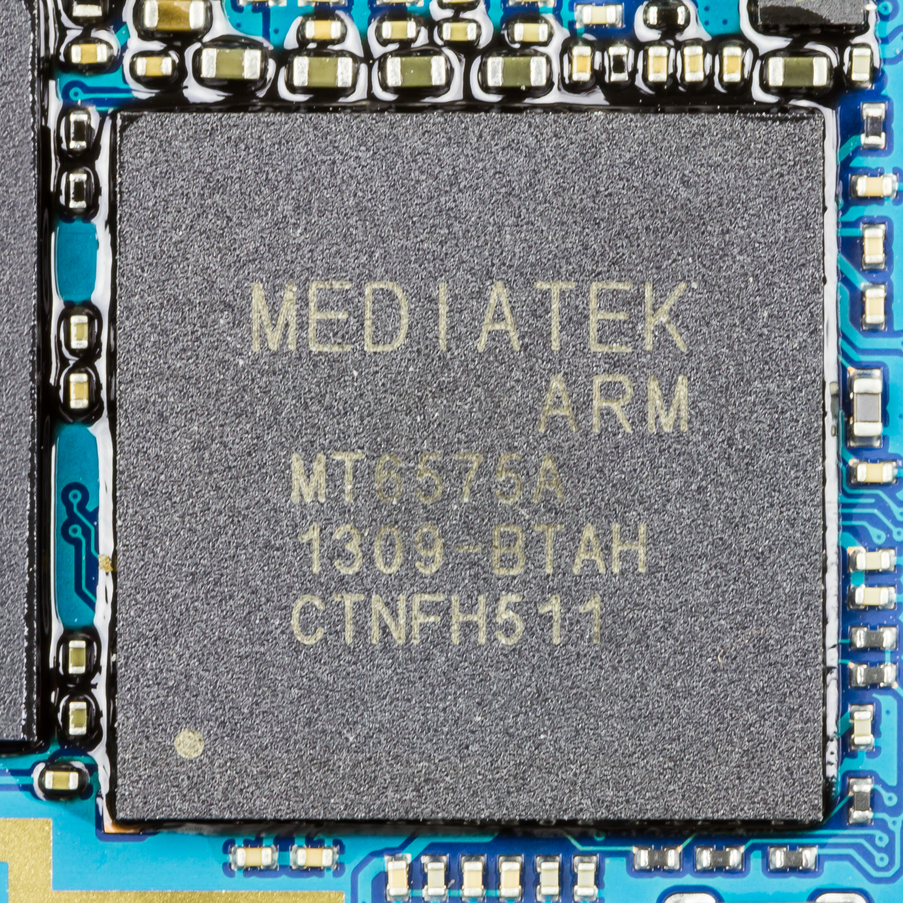 LG E455 Optimus L5 II Dual - Mediatek MT6575A - 1GHz ARM® CortexTM‐A9 processer